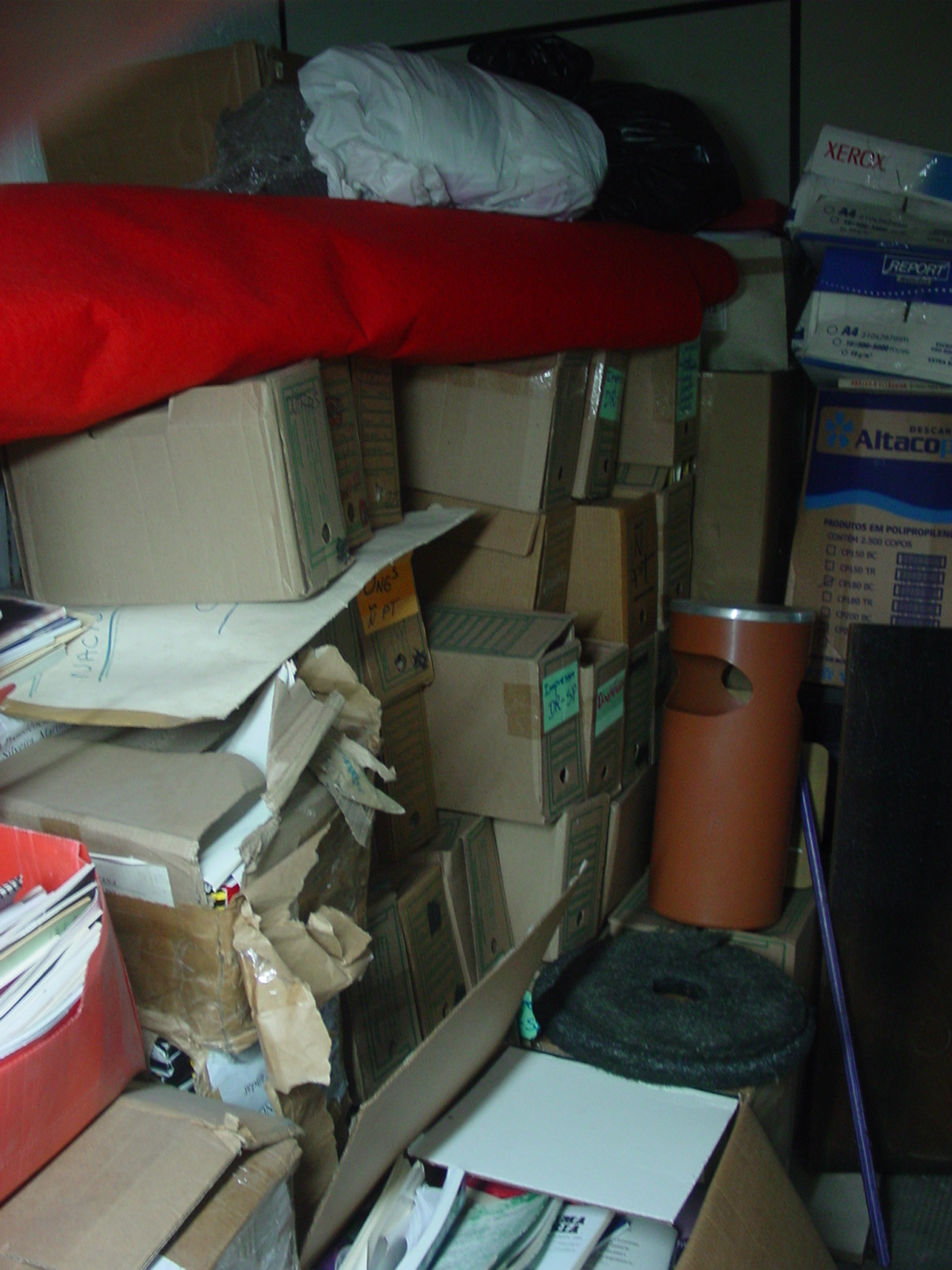 Amostra do difícil trabalho de recuperação e organização de arquivos no contexto de atividade política.